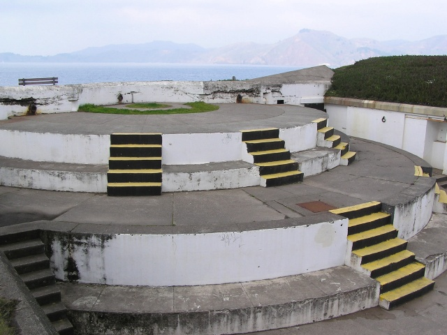 Battery Chamberlin (built 1943) — at Fort Miley Military Reservation, on the western headlands of San Francisco, California.Fort Miley (p7040130)